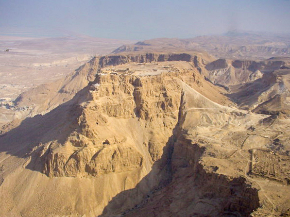 The massive earthen ramp at Masada, constructed by the Roman army to breach the fortress' walls. Photo taken from north of the ramp, looking south.